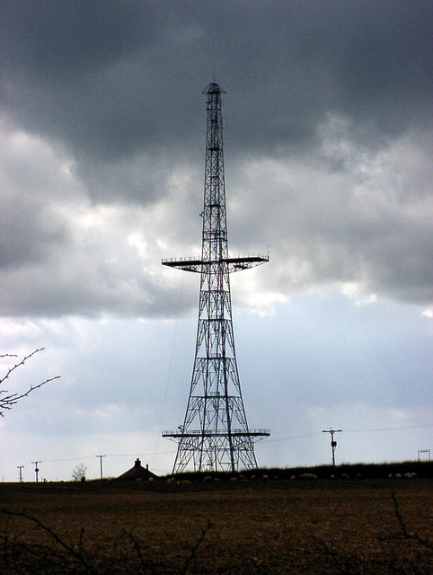 Chain Home transmitter tower at Stenigot This is the last remaining CH radar mast at what used to be RAF Stenigot. It dates from about 1940 and is now a listed building.